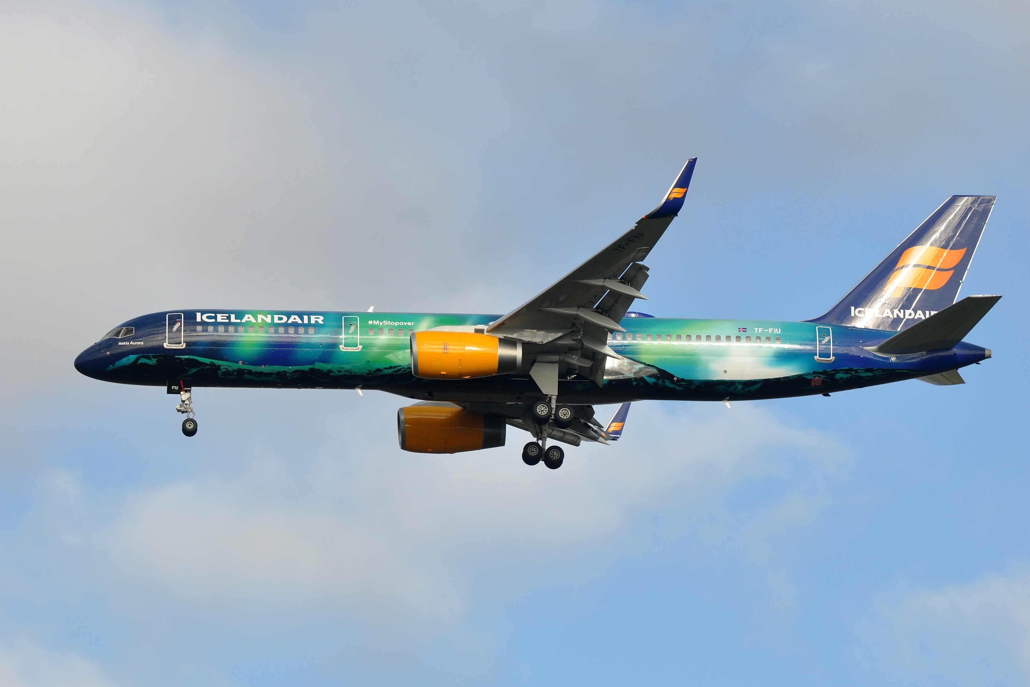 MSN 26243 LN 603 B757-256 ICELANDAIR CDG EX IBERIA AS EC-609 AND EC-FYK EX VOLARE AIRLINES AS TF-FIU